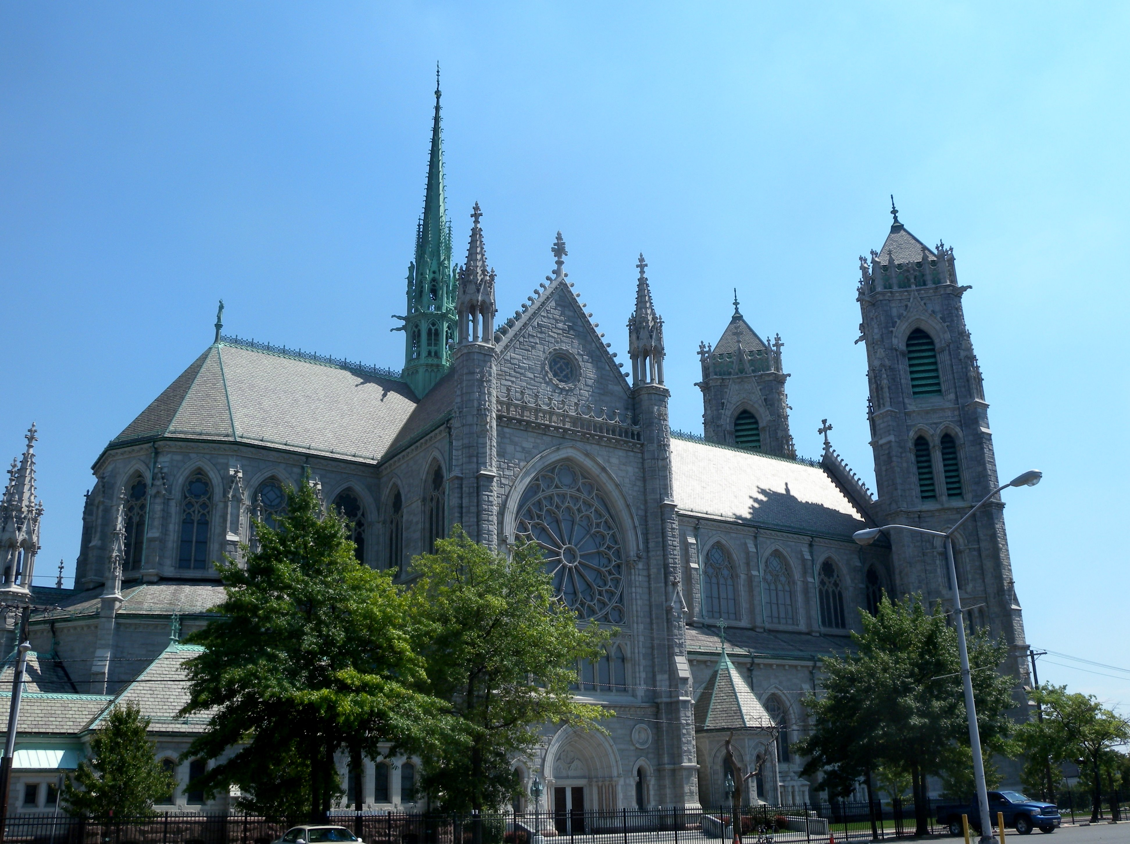 Looking southeast from parking lot at Sacred Heart on a sunny midday.